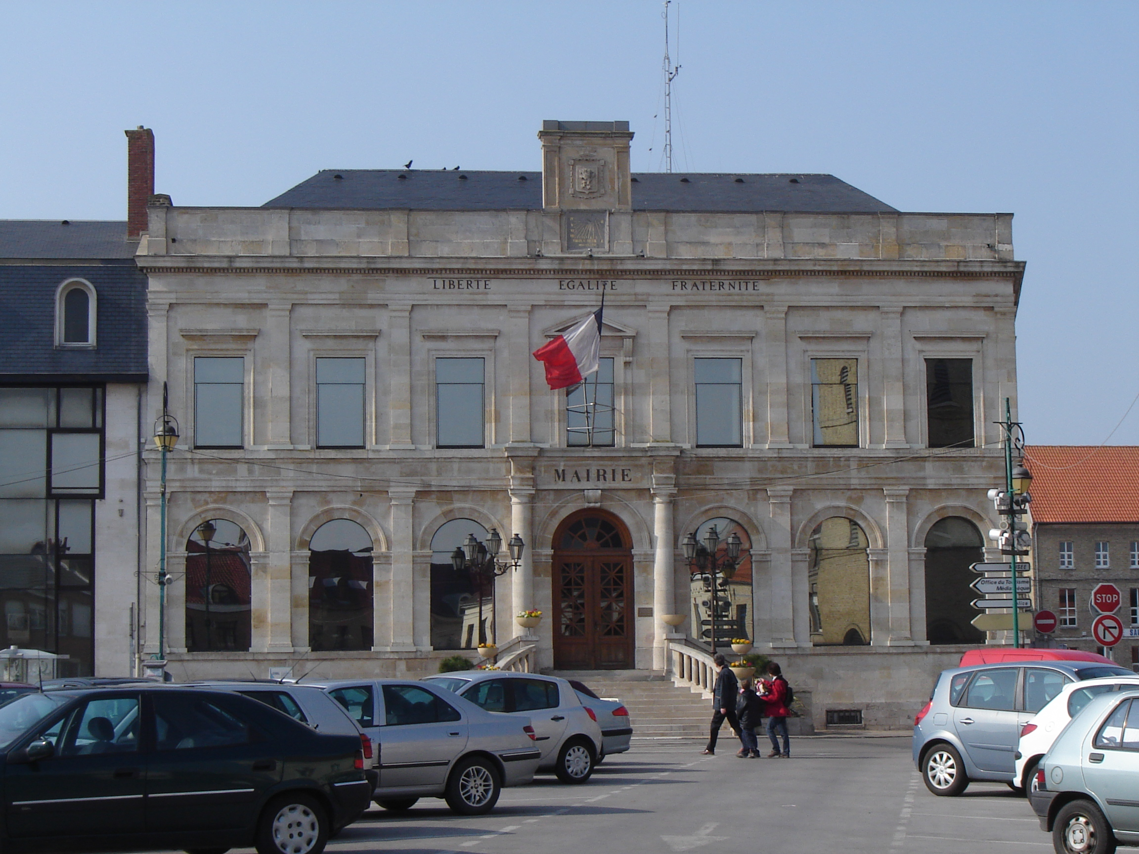 City hall of Gravelines, Nord, Nord-Pas-de-Calais, France